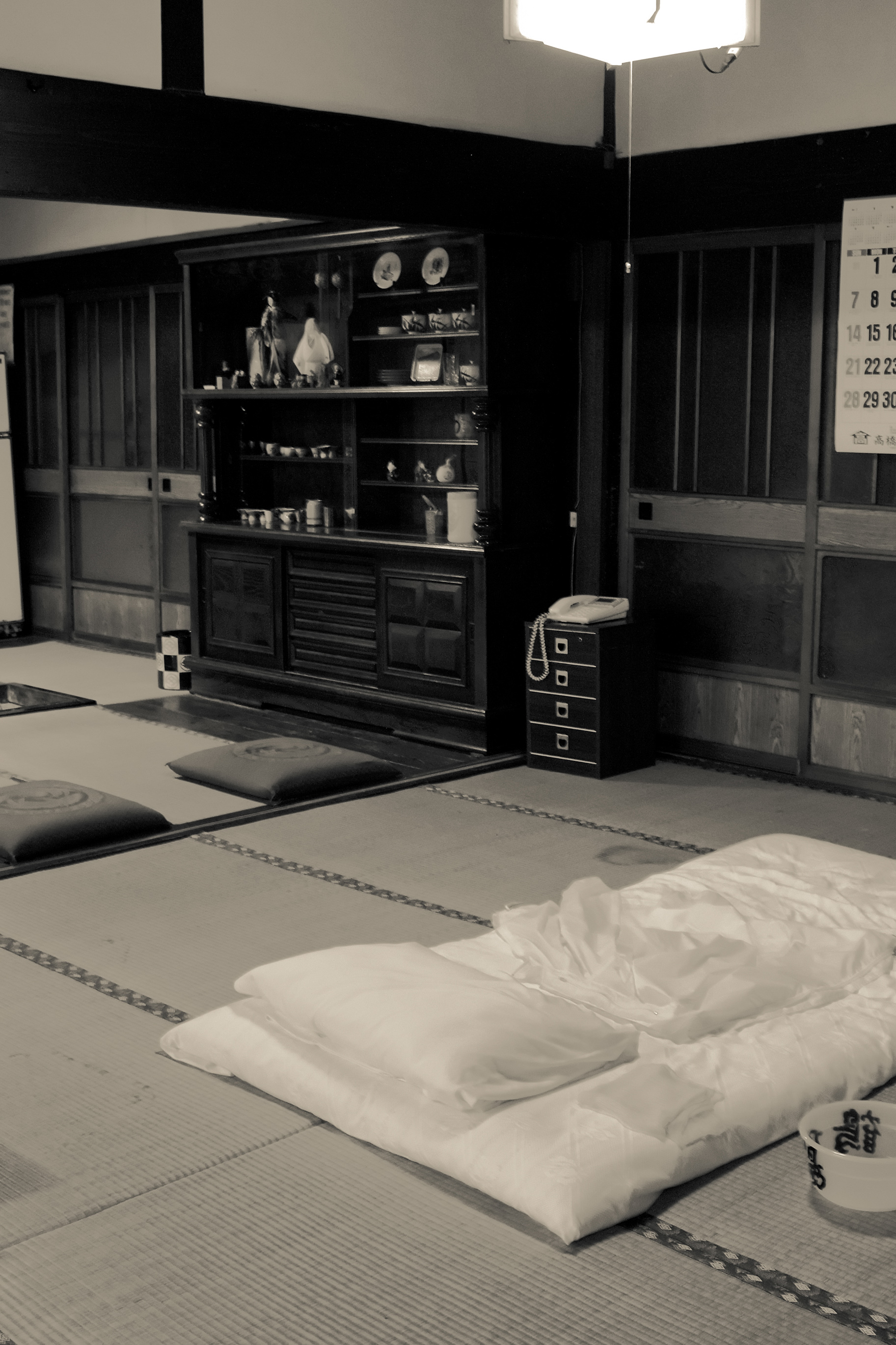 An indoor location from the Japanese film Okuribito (2008), maintained as it was used in the film.